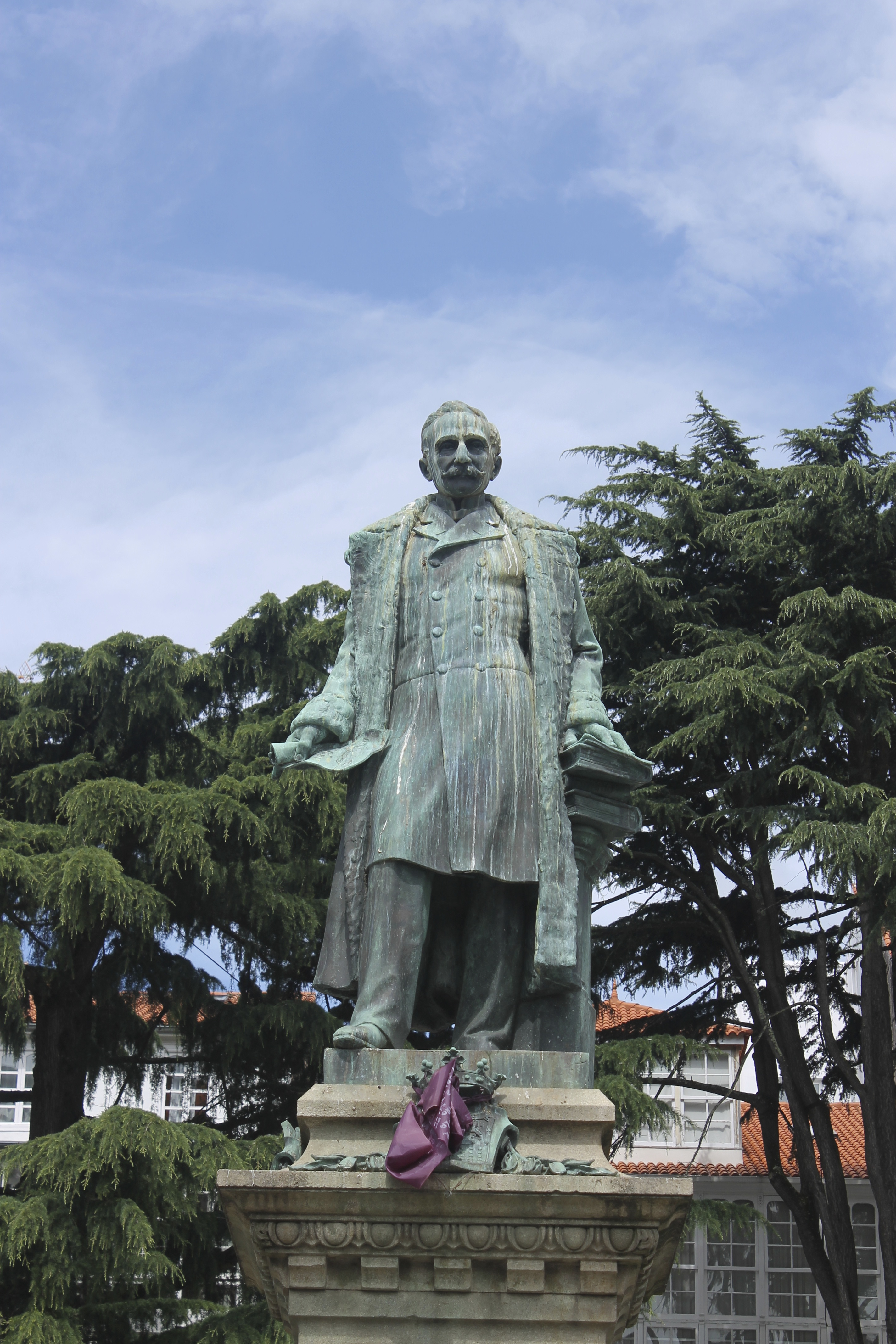 Marquess of Amboage statue, Ferrol